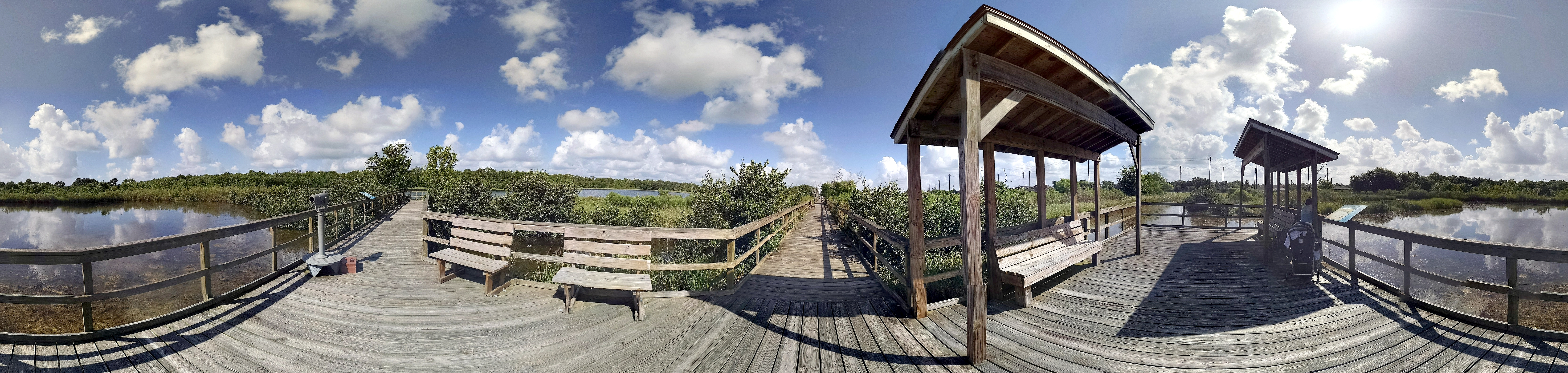 Wetlands Exhibit at Sea Center Texas in Lake Jackson, Texas.